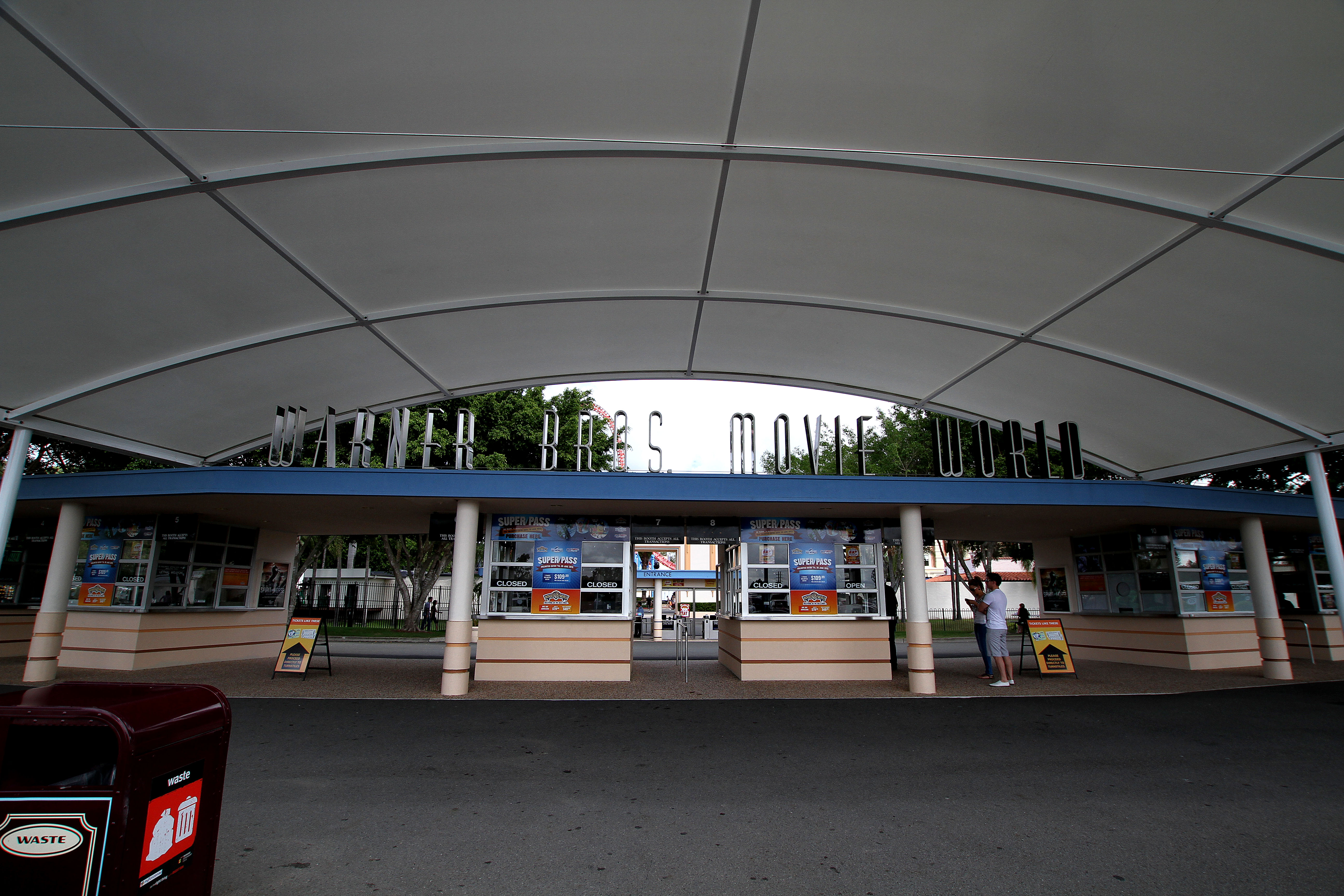 Gold Coast Australia